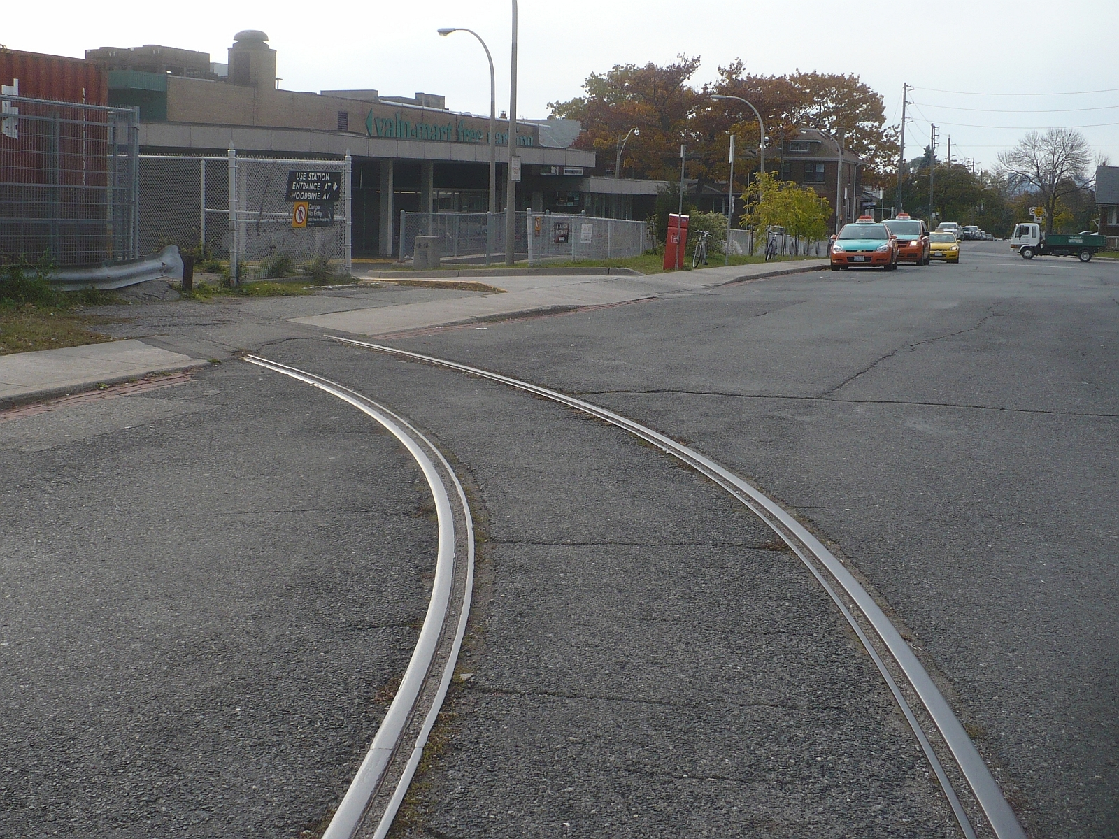 Woodbine subway station in Toronto. Disused streetcar track along Strathmore Boulevard